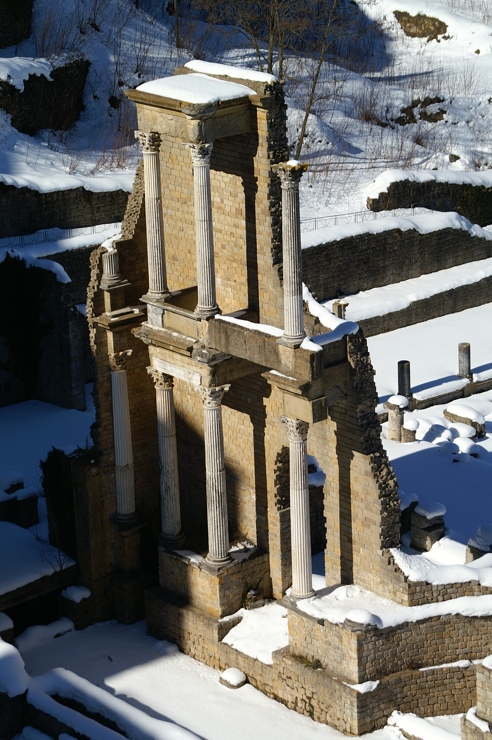 The Roman theater of Volterra, Italy.